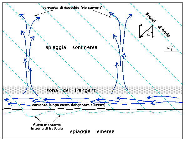 Conceptual scheme of littoral currents. Text in italian.